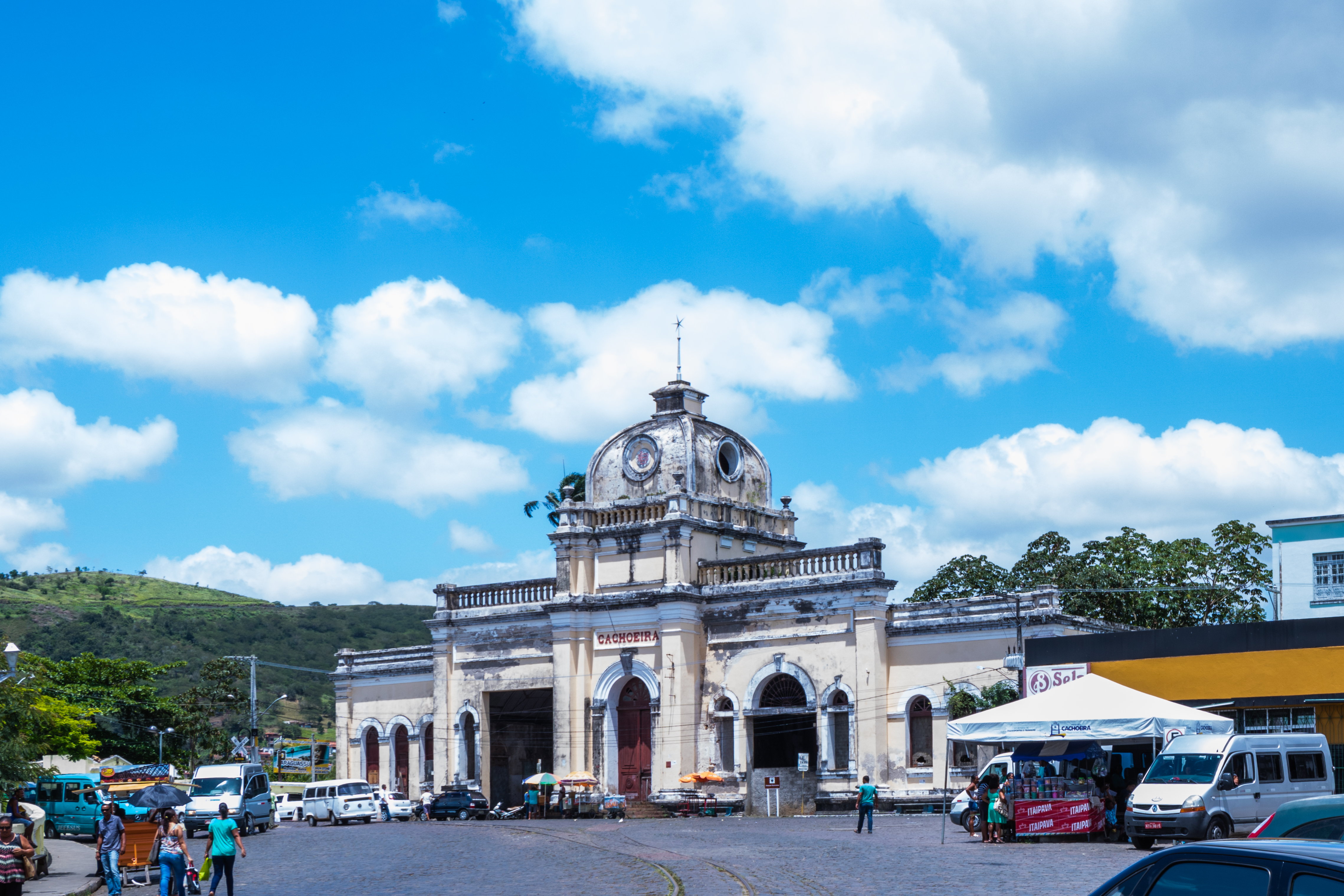 Estação Ferroviária, Cachoeira, Bahia, Brazil.